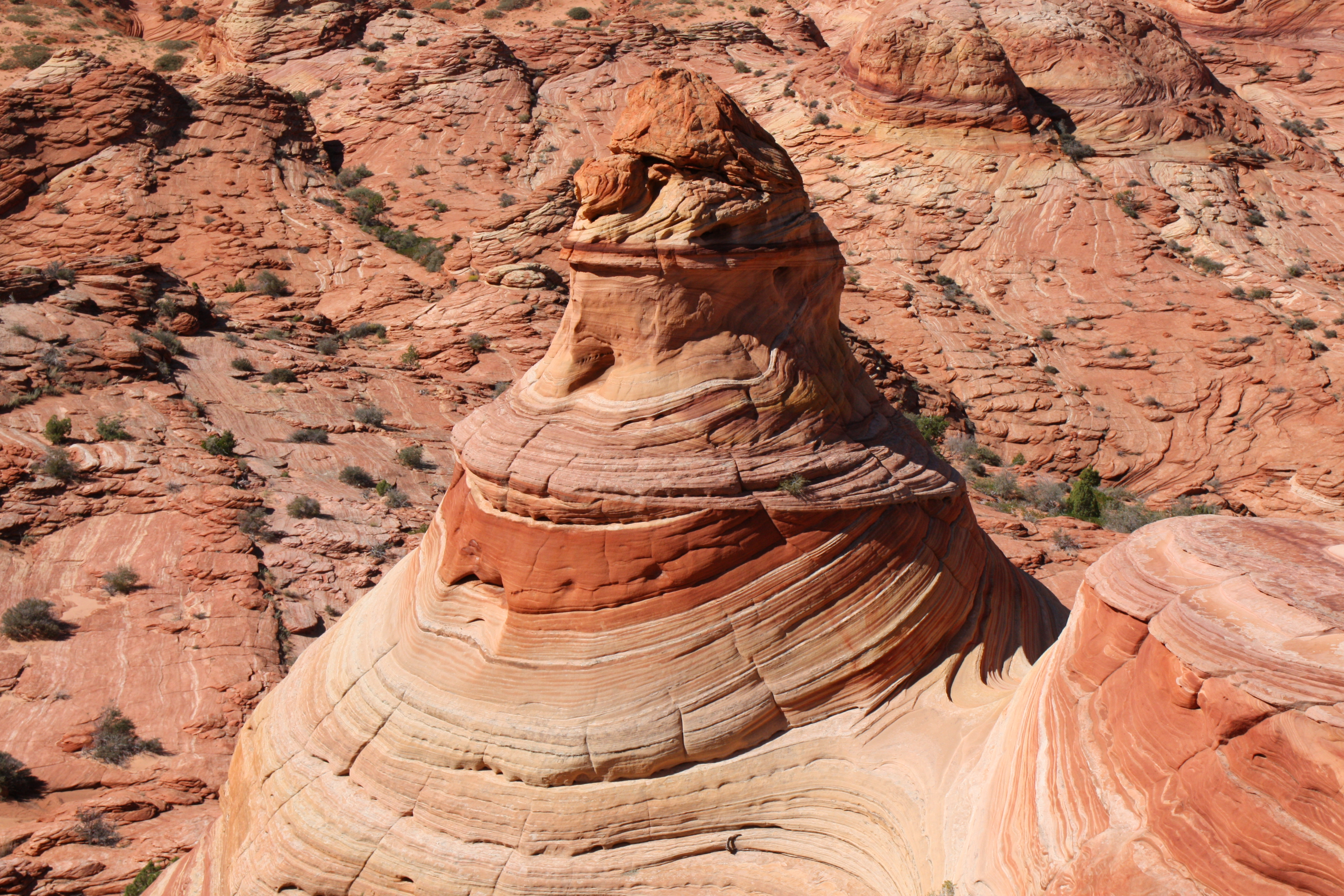 Vermillion Cliffs Wilderness, North Coyote Buttes, petrified Sand Dunes called The Wave